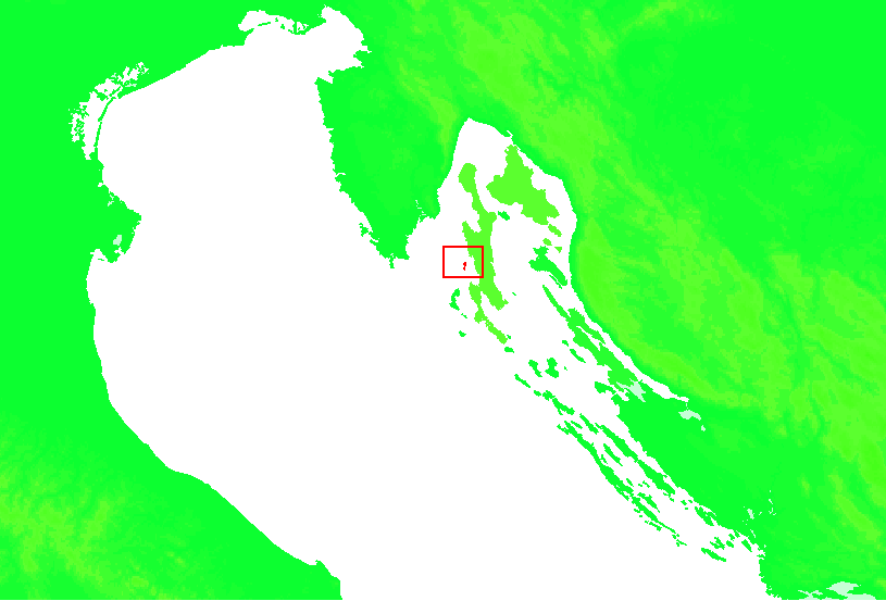 Island of Croatia Croatia - Zeca.PNG